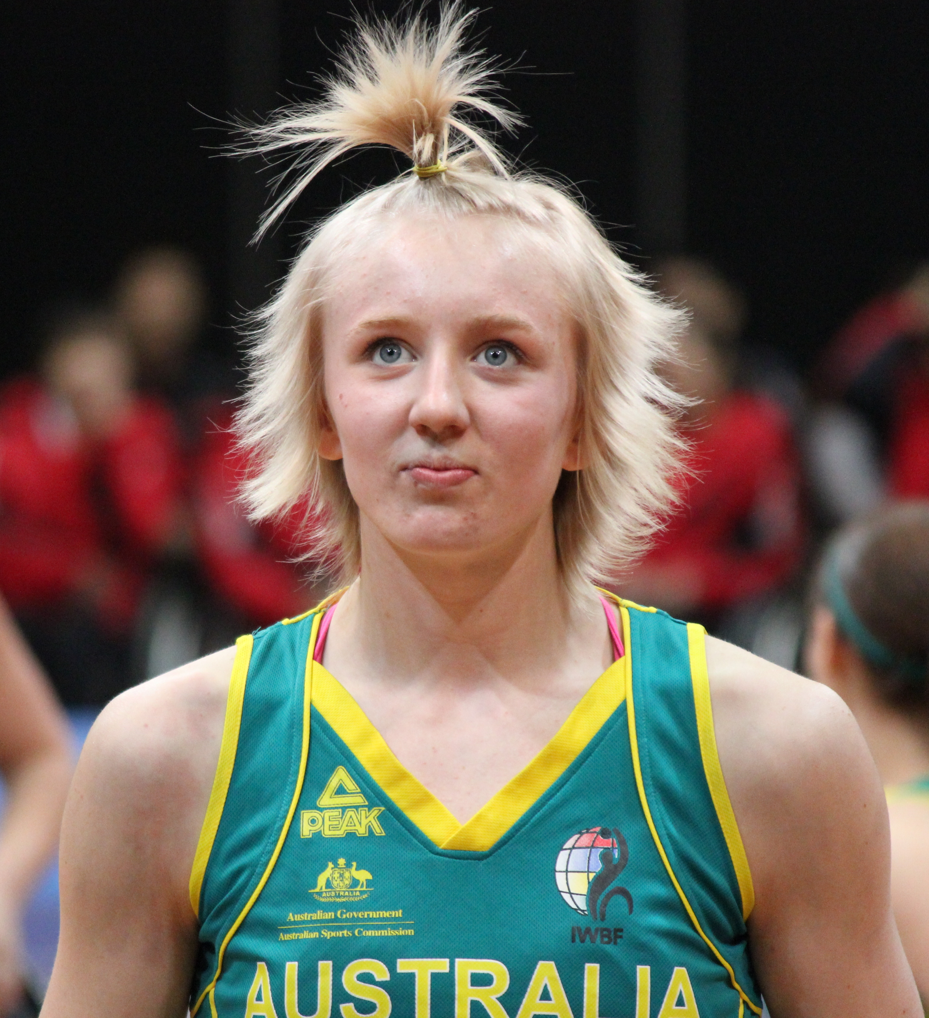 Gliders player Amber Merritt